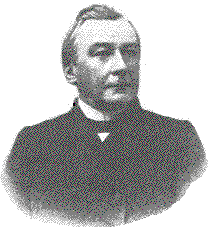 Ds. Barend ter Haar, minister